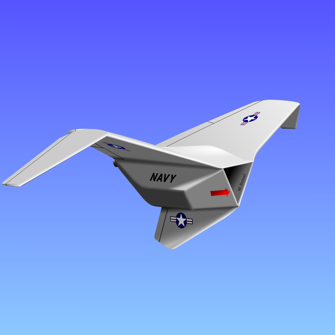 Cormorant - Multi Purpose Unmanned Air System